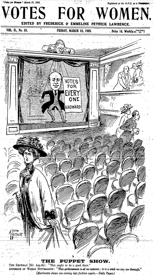 Front page of the suffragette newspaper Votes for Women